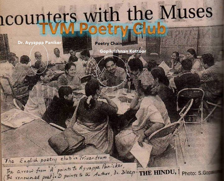 Photograph of event